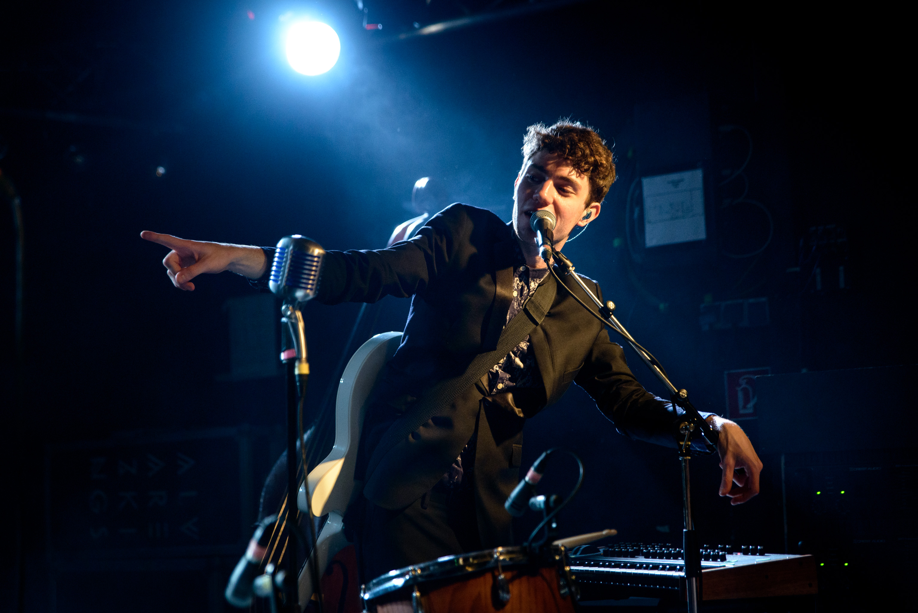 Echosmith in Munich 2015